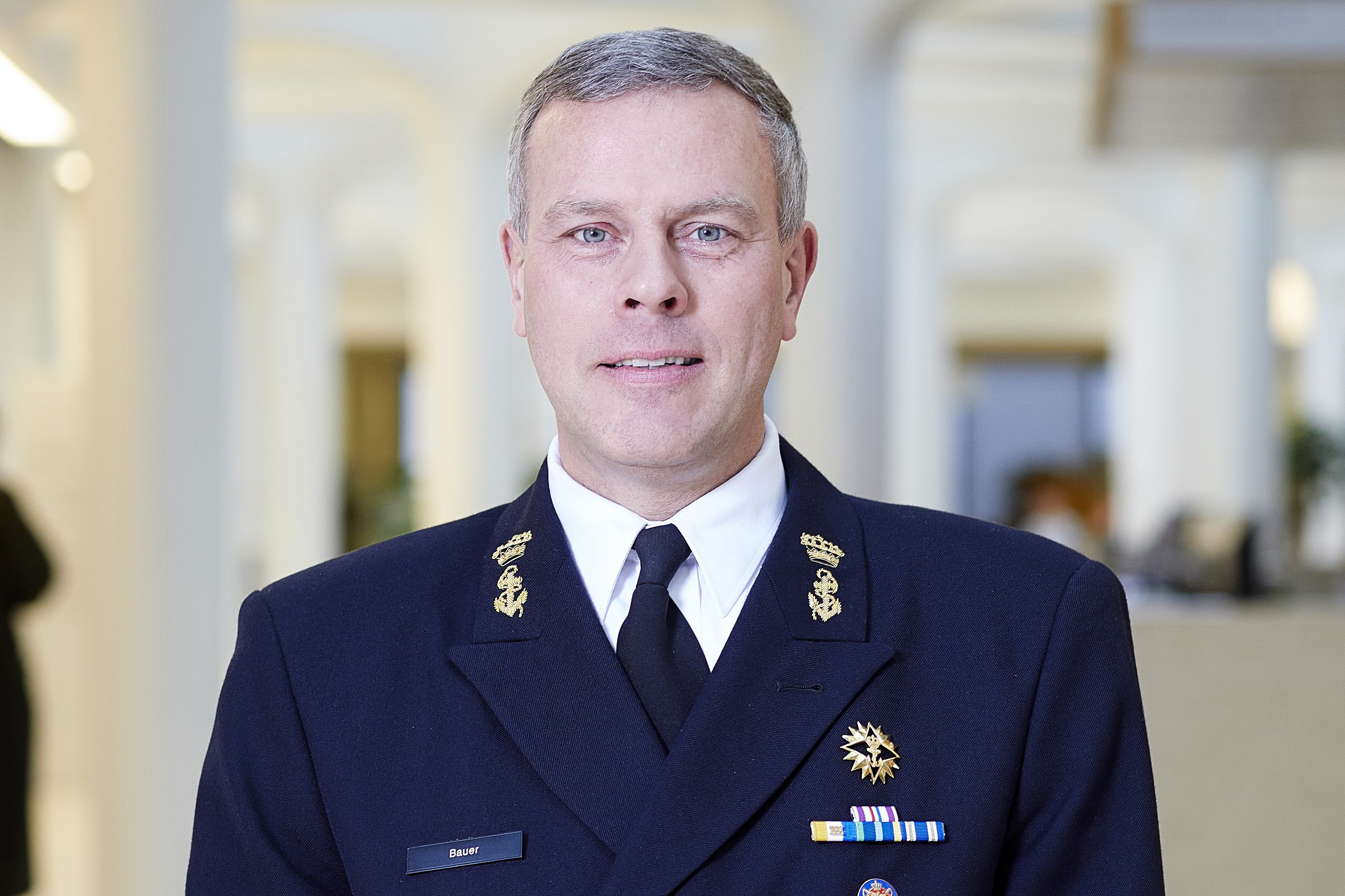 Vice admiral Rob Bauer